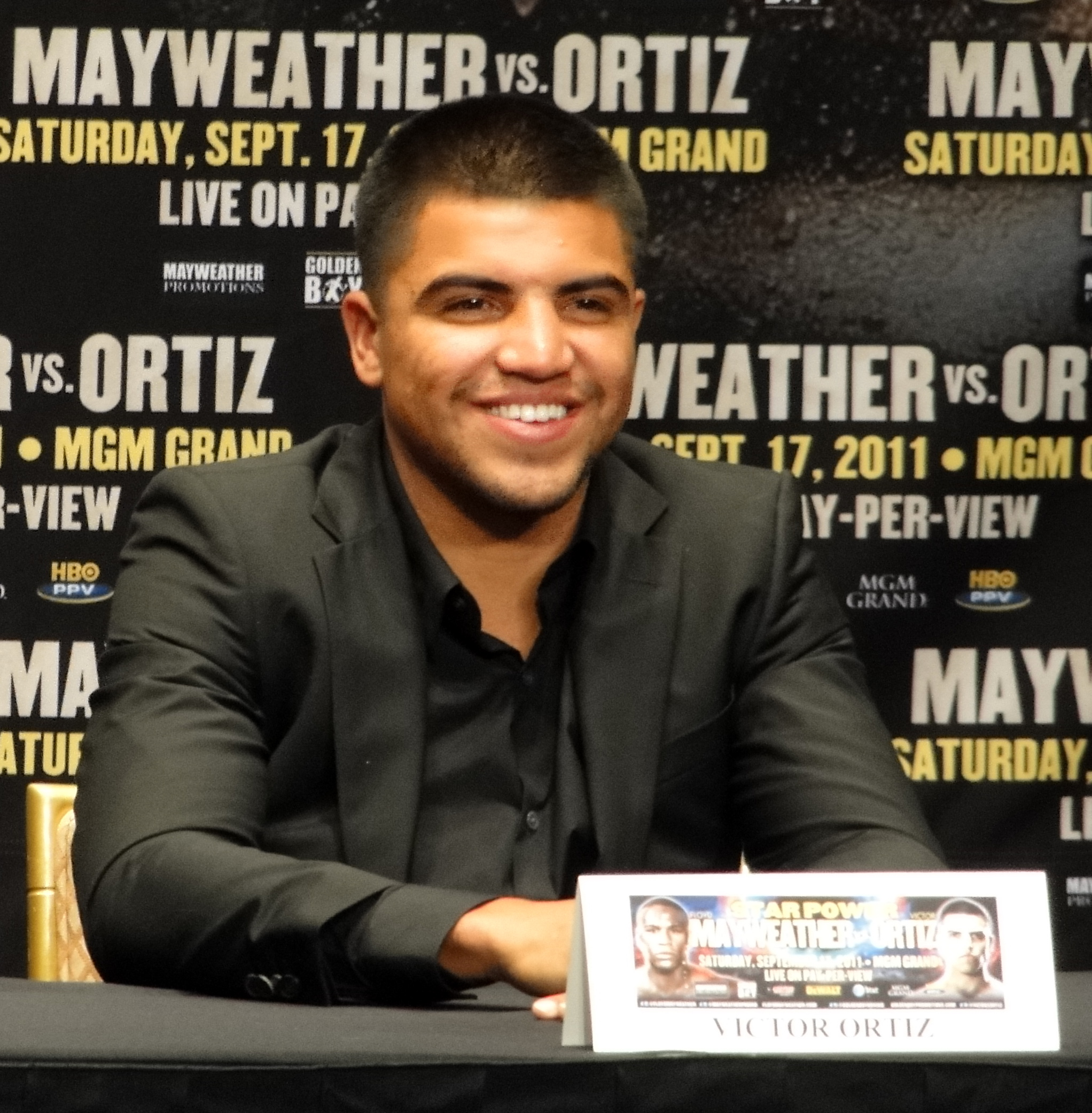 Victor Ortiz during a press conference for the fight against Floyd Mayweather, Jr. at the Hudson Theatre on June 28, 2011.